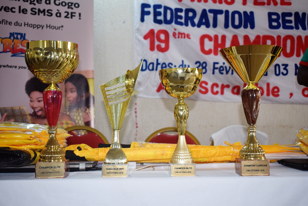 Benin, Championnats nationaux de scrabble 2019, Les 4 trophées des épreuves blitz, elite, classique et du défi national This is an image with the theme "Play" from: Benin